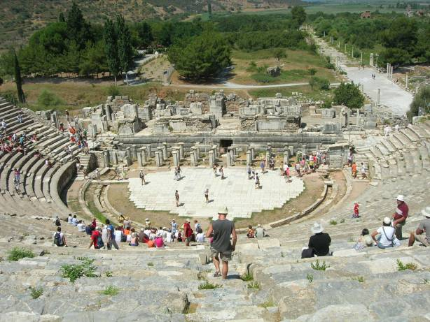 Ephesus, Turkey: the ancient theatre.